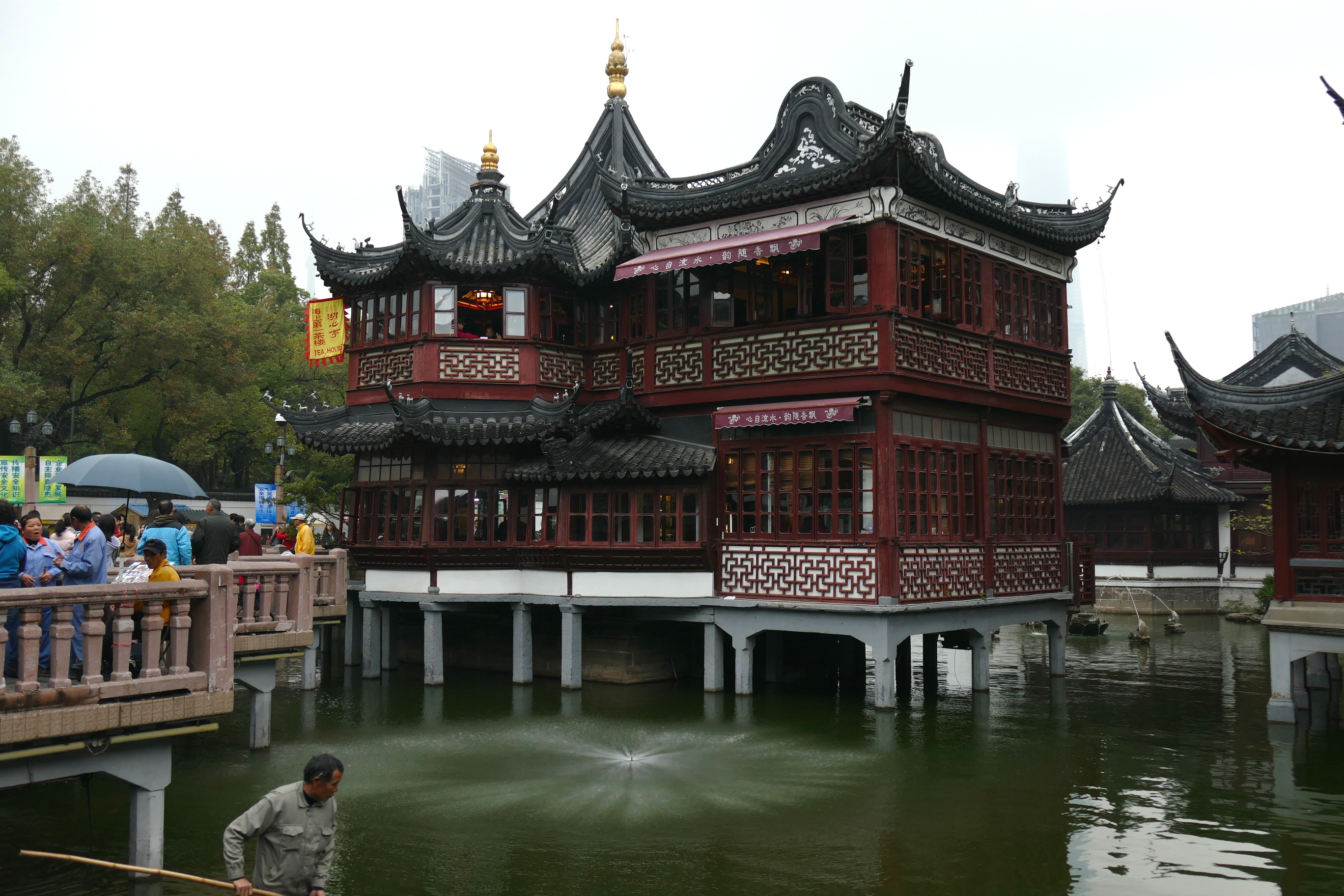 Mid-Lake Pavilion at Yu Garden in Shanghai